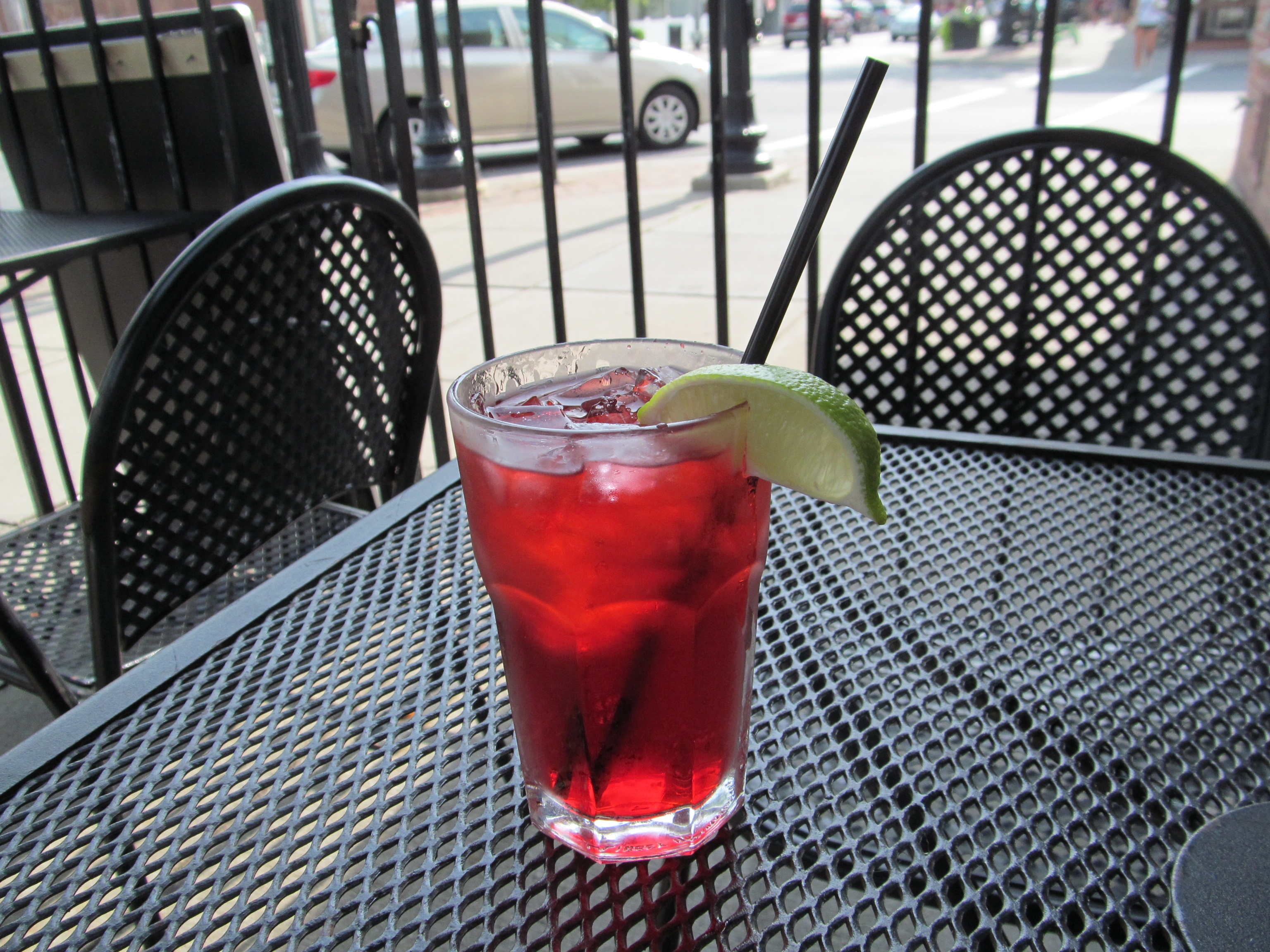 Cape Codder, Tommy Doyles Irish Pub, Hyannis Massachusetts